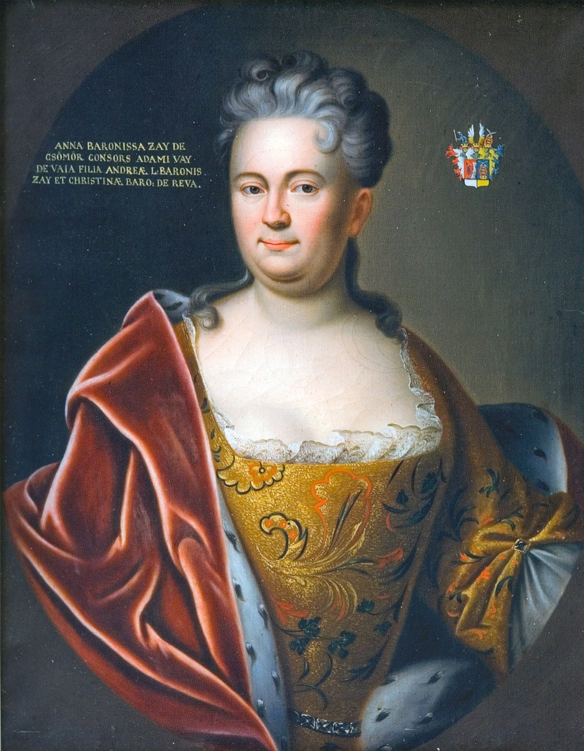 Baroness Anna Zay de Csömör (1680–1733), by marriage Mrs. Ádám Vay of Vaja, one of the first Hungarian female writers, a prominent figure of the early Baroque literature.